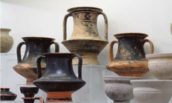 Greek pottery from Budva - Montenegro - 4 - 2. c BC